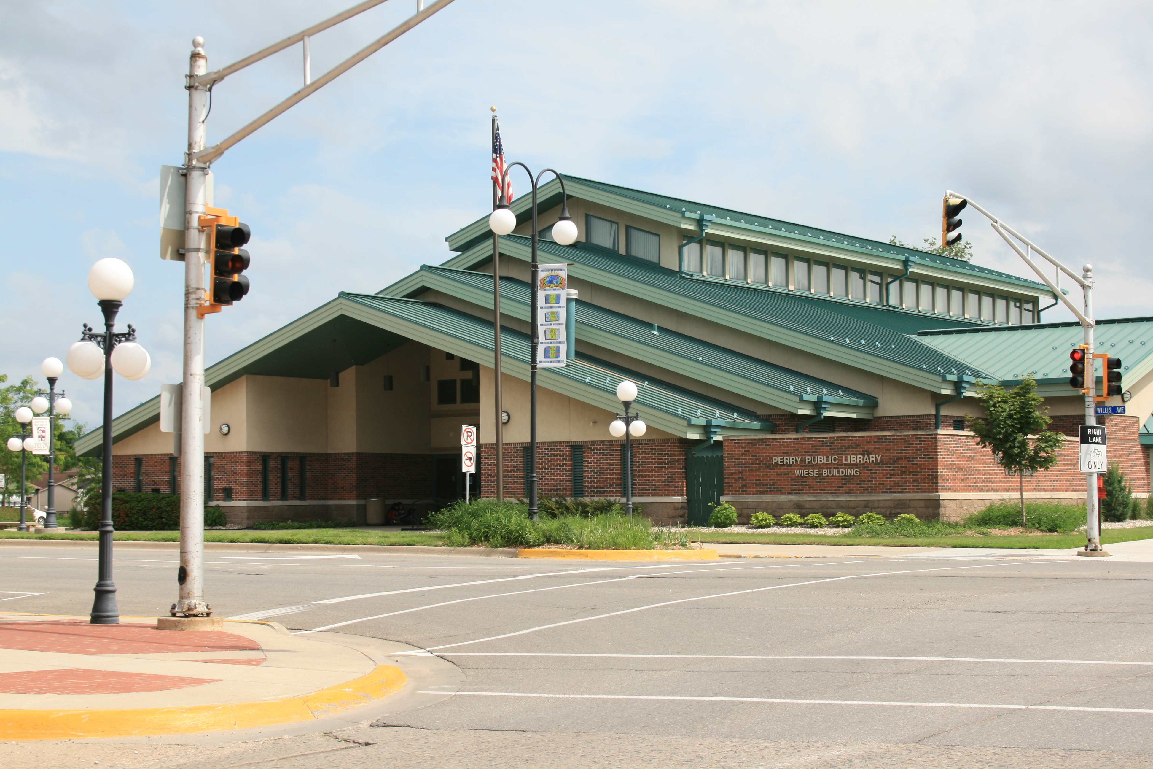 Perry Public Library, Wiese building in Perry, Iowa